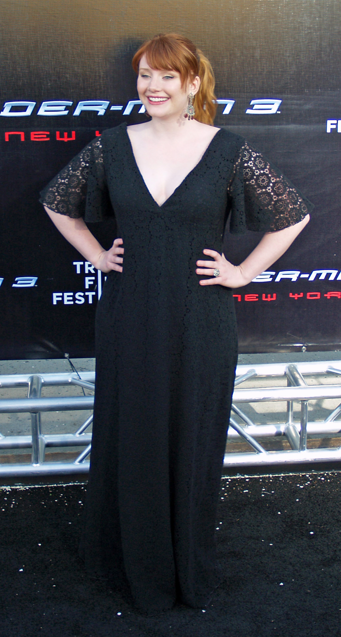 Bryce Dallas Howard